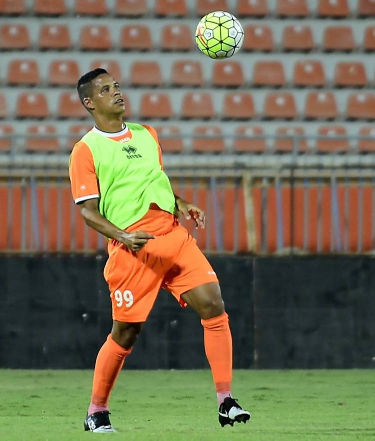 Patrick Fabiano training before a match against Al Salmiya Club.; 27 October 2015; Al-Sadaqua Walsalam Stadium, Kuwait